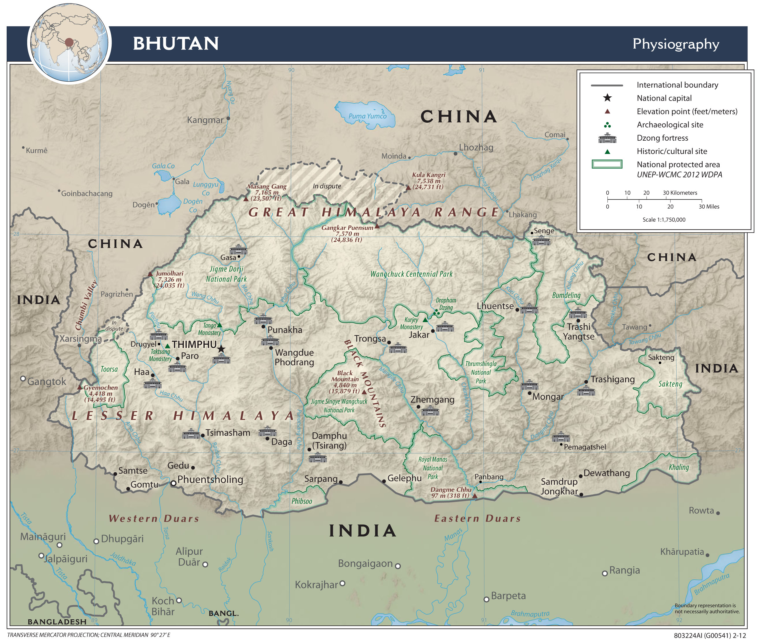 Topographic map of Bhutan (shaded relief), 2012.